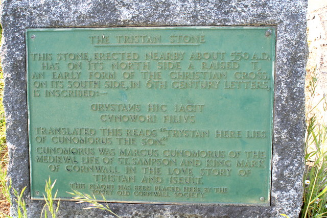 Plaque detailing the history of the Tristan Stone